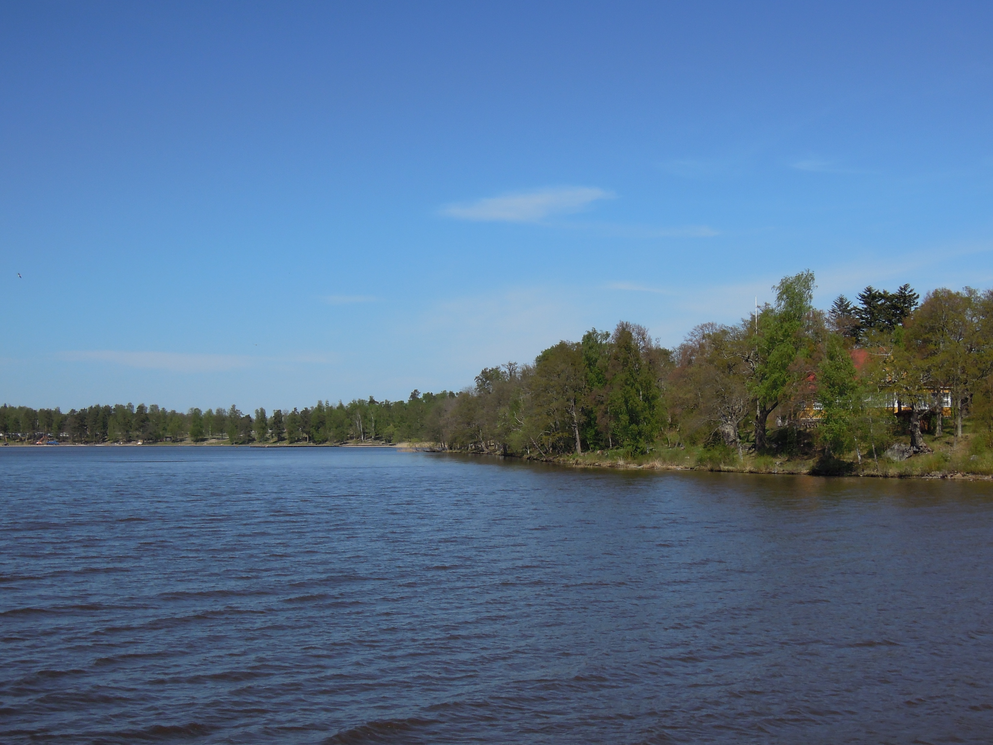 The island of Björnön to the left and Rågsäcken to the right, in Mälaren seen from west close to Västerås, Sweden